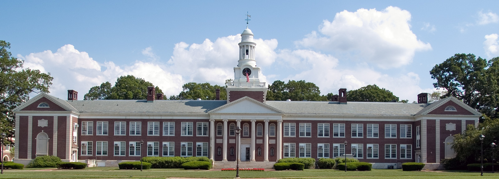 Green Hall at TCNJ. Taken by Mr. Green in the study with an Olympus E-1